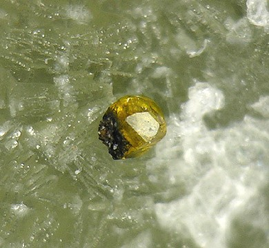 Greenockite, Chalcopyrite, Prehnite Locality: Houdaille Quarry (Summit Quarry; Commonwealth Quarry), Springfield, Union County, New Jersey, USA (Locality at ) Size: 1.6 x 1.4 x 0.5 cm. Greenockite is a rather rare species, considering it has a very simple chemistry (Cadmium Sulfide). There are only a handful of localities in the world for fine crystallized Greenockite specimens, and the Summit Quarry in New Jersey is possibly the best U.S. locality for the species (certainly the best in New Jersey). This locality opened in the early 20th Century, and produced a large number of Zeolites species and other associated minerals in its history. It is now long gone, but thanks to collectors like Richard Kosnar, many good specimens now survive from this historic Quarry. This specimen was collected by Richard Kosnar in 1964 when he had just graduated from high school. He had almost exclusive access to the quarry at the time, and was able to collect some very unique and interesting Greenockite specimens over several years time. As a matter of fact, Richard Kosnar most likely collected more Greenockite specimens from New Jersey than any other collector, even many collectors combined. This piece is mounted in a perky box, and upon close examination, one can see a small honey colored "beehive"-shaped Greenockite crystal in the center of the specimen which has a small crystal of Chalcopyrite at the base. The crystals are sitting on a beautifully contrasting green Prehnite matrix. This specimen is nearly 50 years old. Ex. Richard Kosnar Collection.